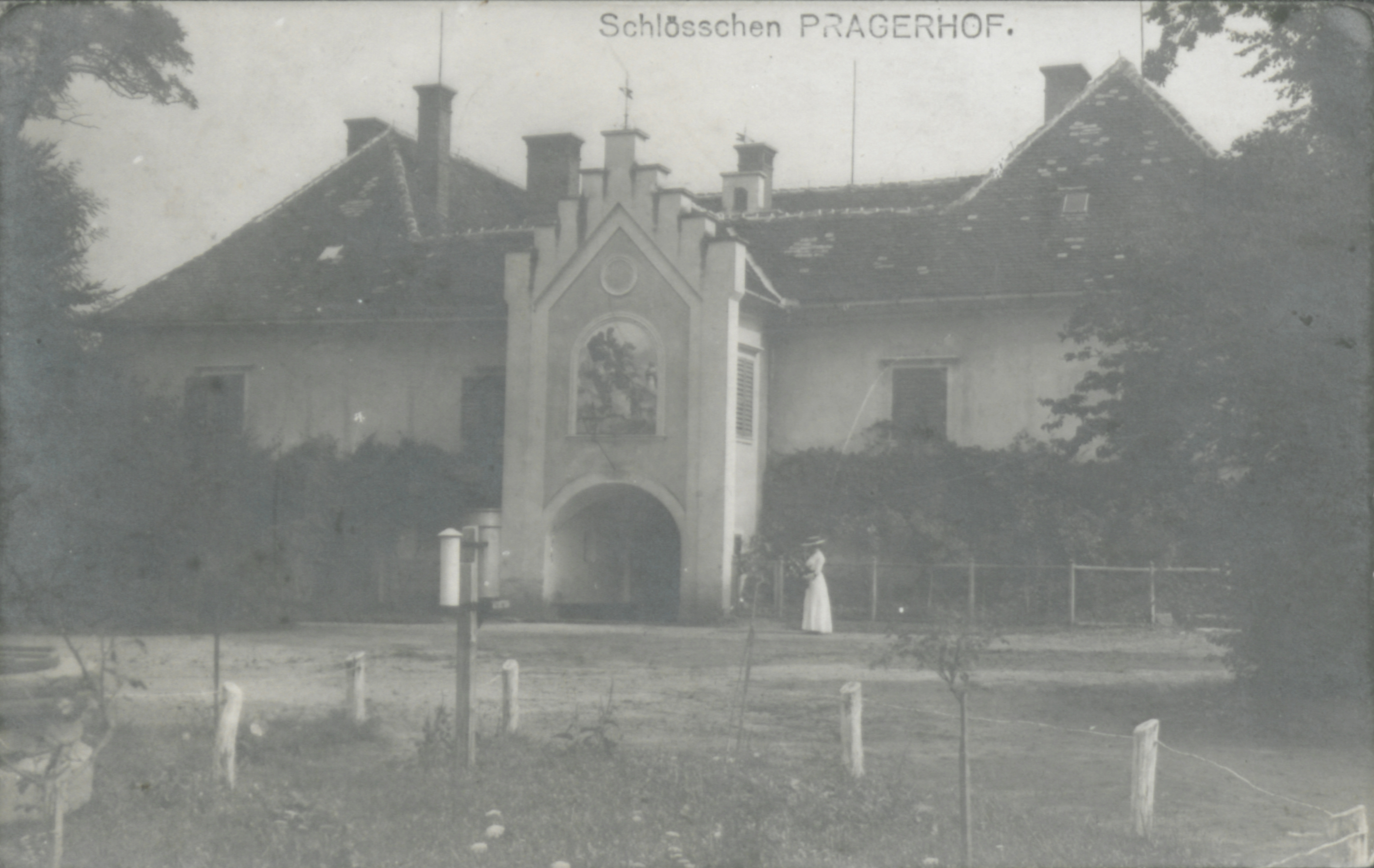 Postcard of Pragersko Mansion